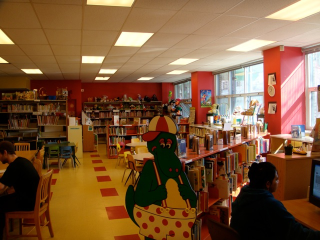 Montreal Children's Library - Jean Rivard Branch Interior